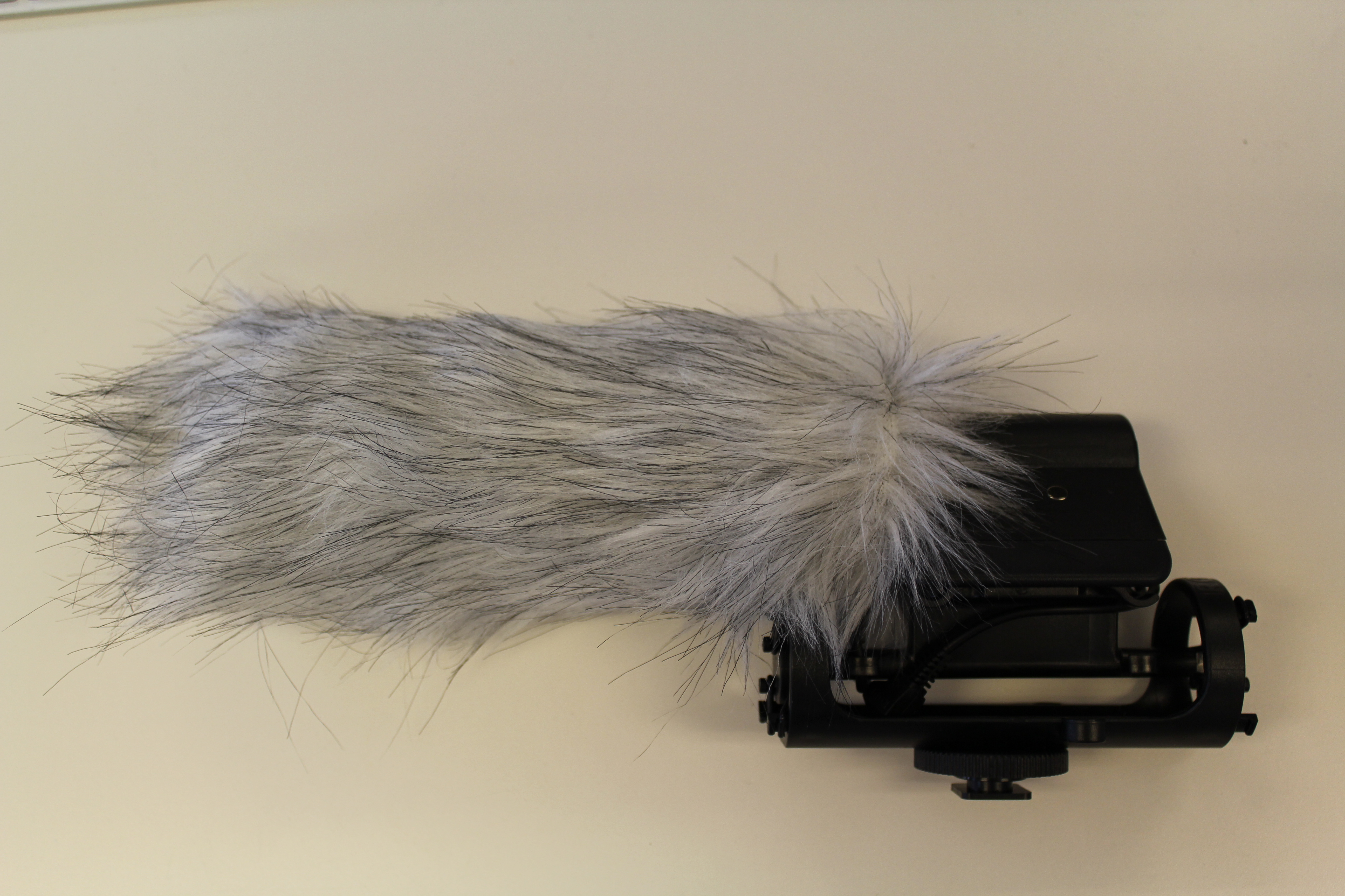 WMUK's RØDE Directional VideoMic inside a "Deadcat" windshield.